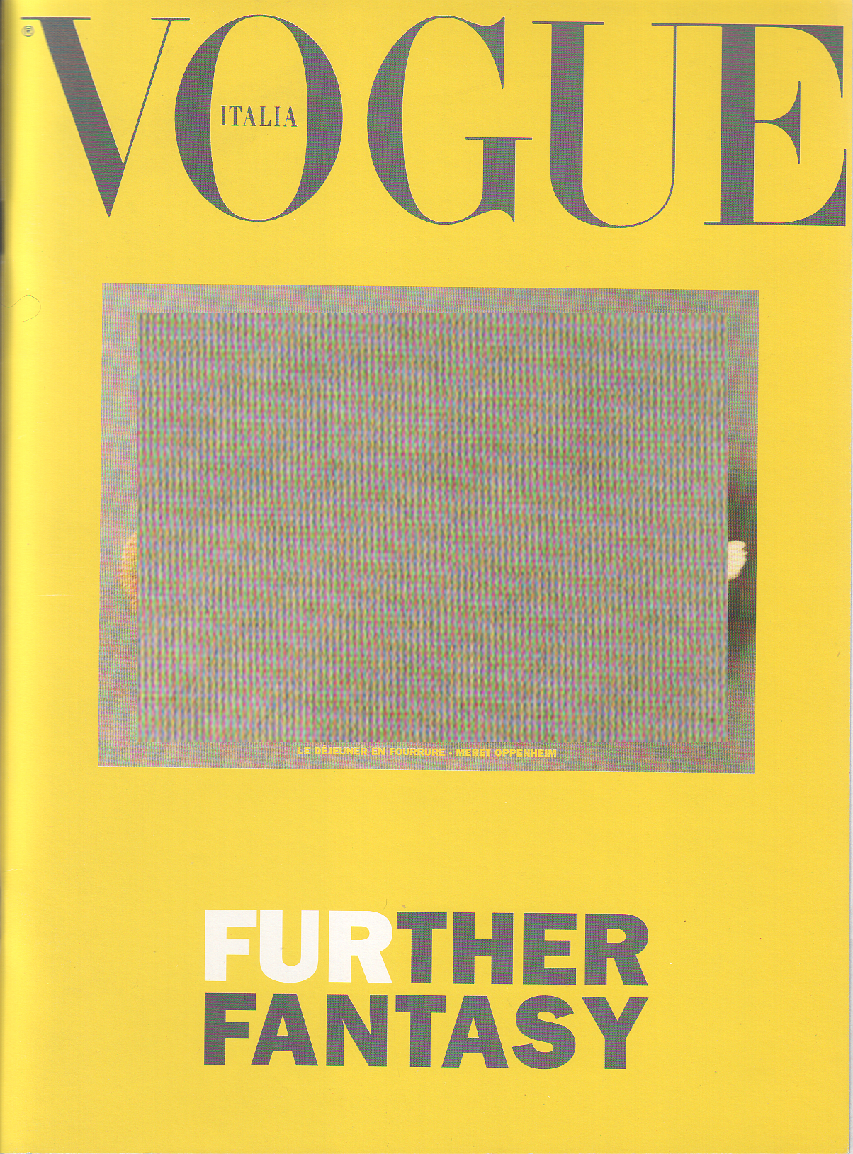 Further Fantasy - Exhibition Galleria Giò Marconi, Milano, 1.-21. March 1999, catalogue Associazione Italiana Pellicceria by Vogue Italia. Cover (the cover image Le Dèjeuner en Fourrure by Meret Opppenheim is faded out). With fur works by Victor Alfaro, Mariso, Gucci, Dolce & Gabbana, Rifat Ozbek, Meret Oppenheim, Prada, Christian Lacroix, Mat Collishaw, Fendi, Givenchy, Victor & Rolf, Tobias Rehberger, Blumarine, Manolo Blahnik, Atelier van Lieshout, Christian Dior, Versace, Vivienne Westwood, Jean Paul Gaultier, Gianfranco Ferré, Michel Haillard (& Lobby).